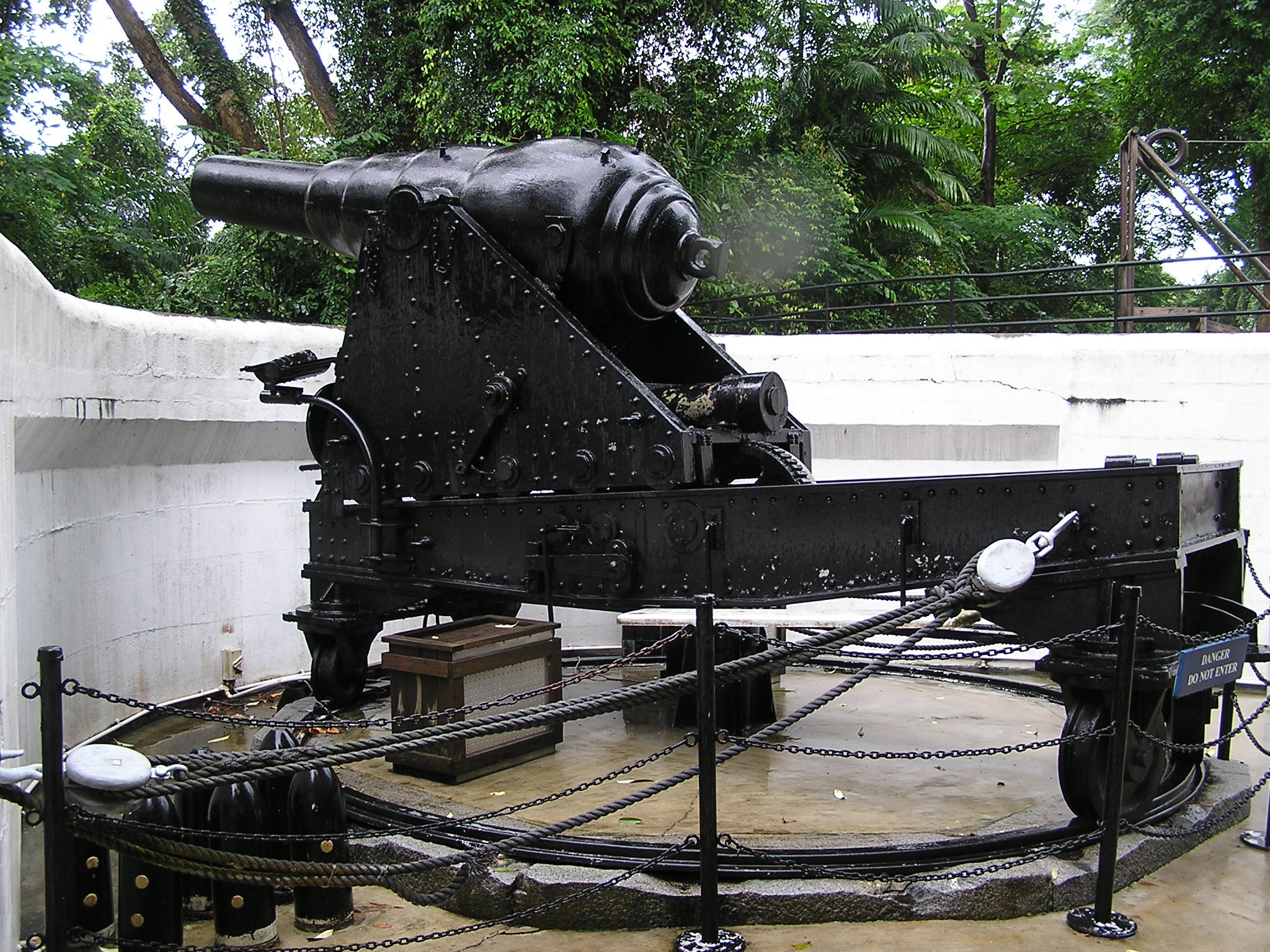 A Replica RML 7 inch gun at Fort Siloso, Sentosa, Singapore.